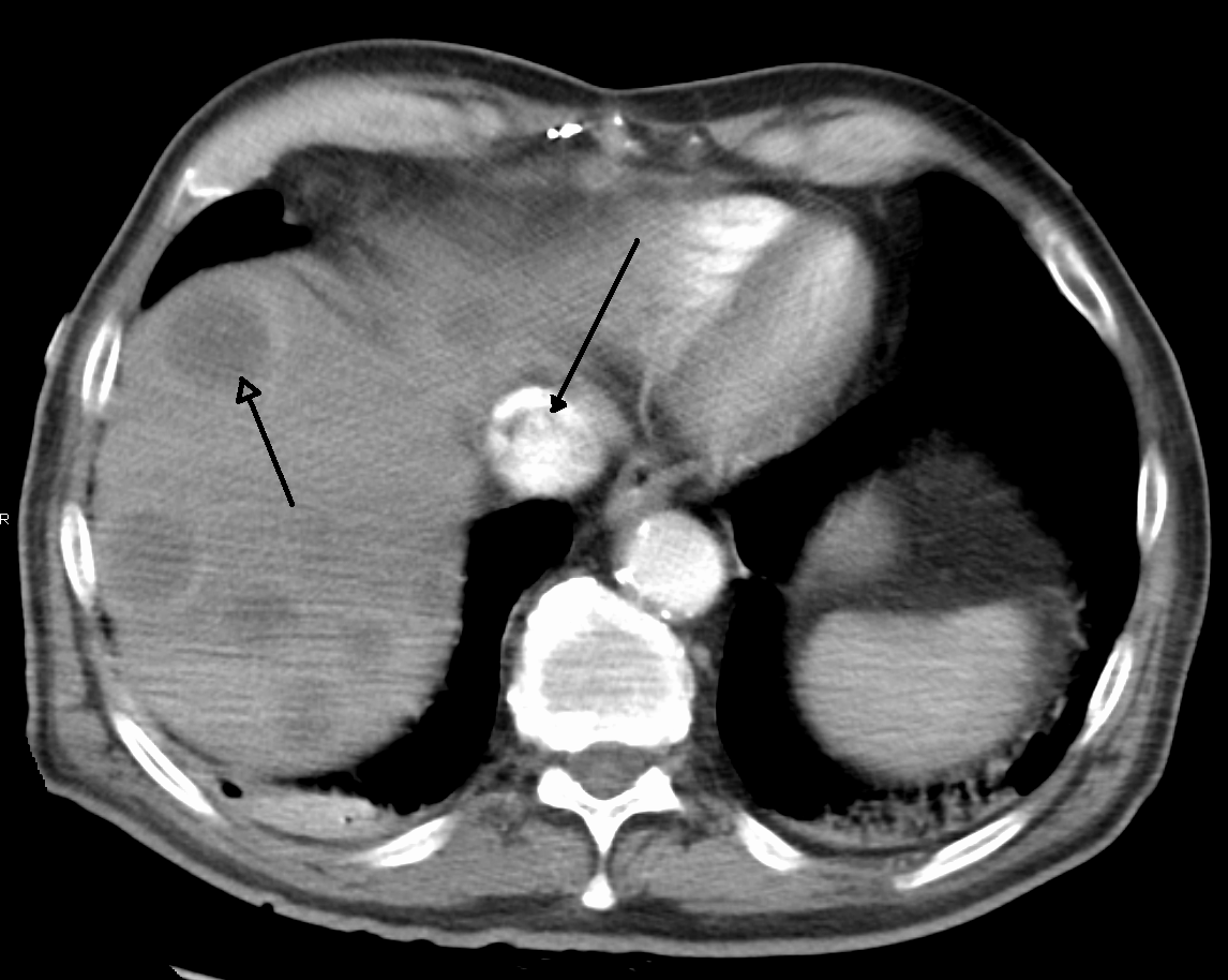 Budd chiari, note clot in the IVC and the mets in the liver